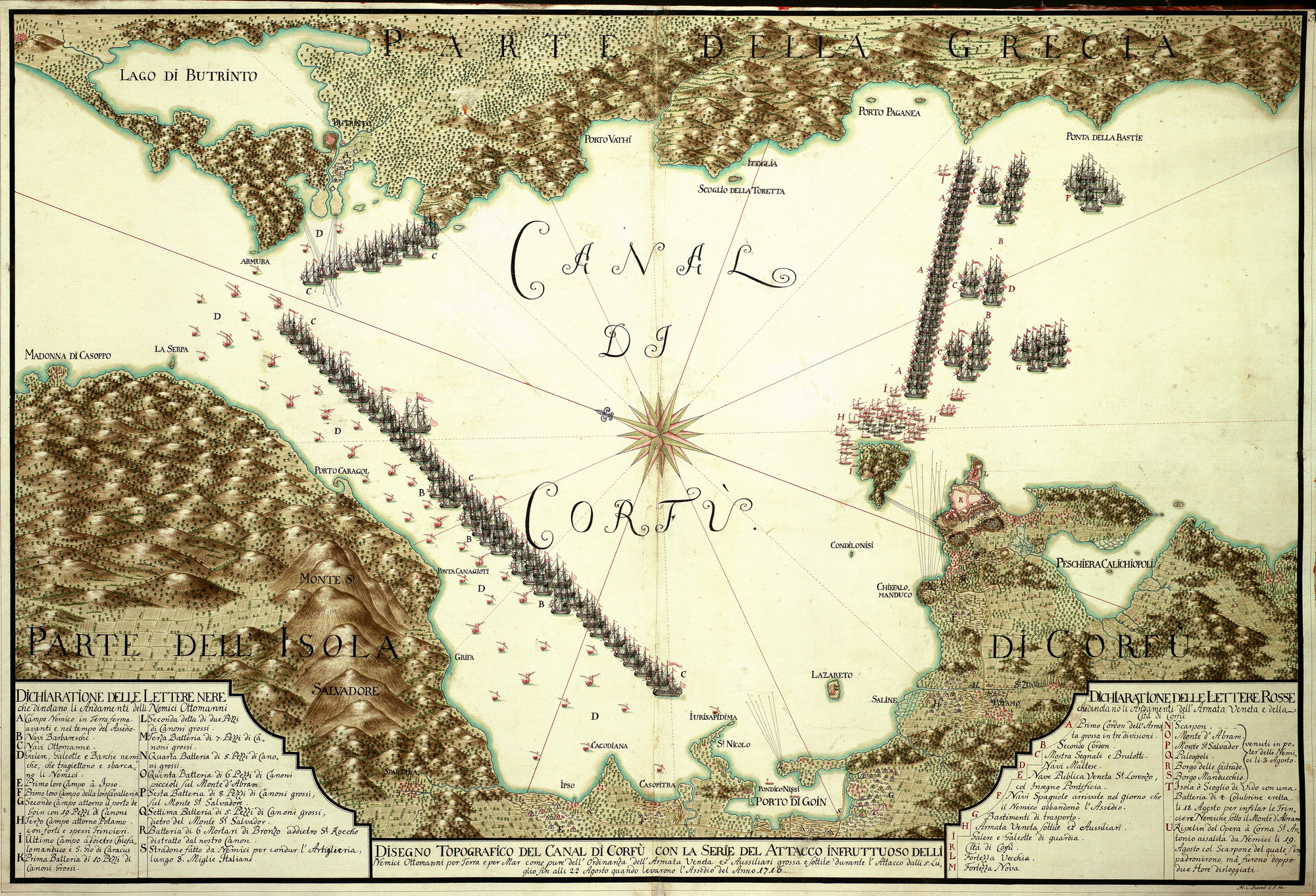 Full title: see above. The siege and battle of Corfu, July-August 1716.